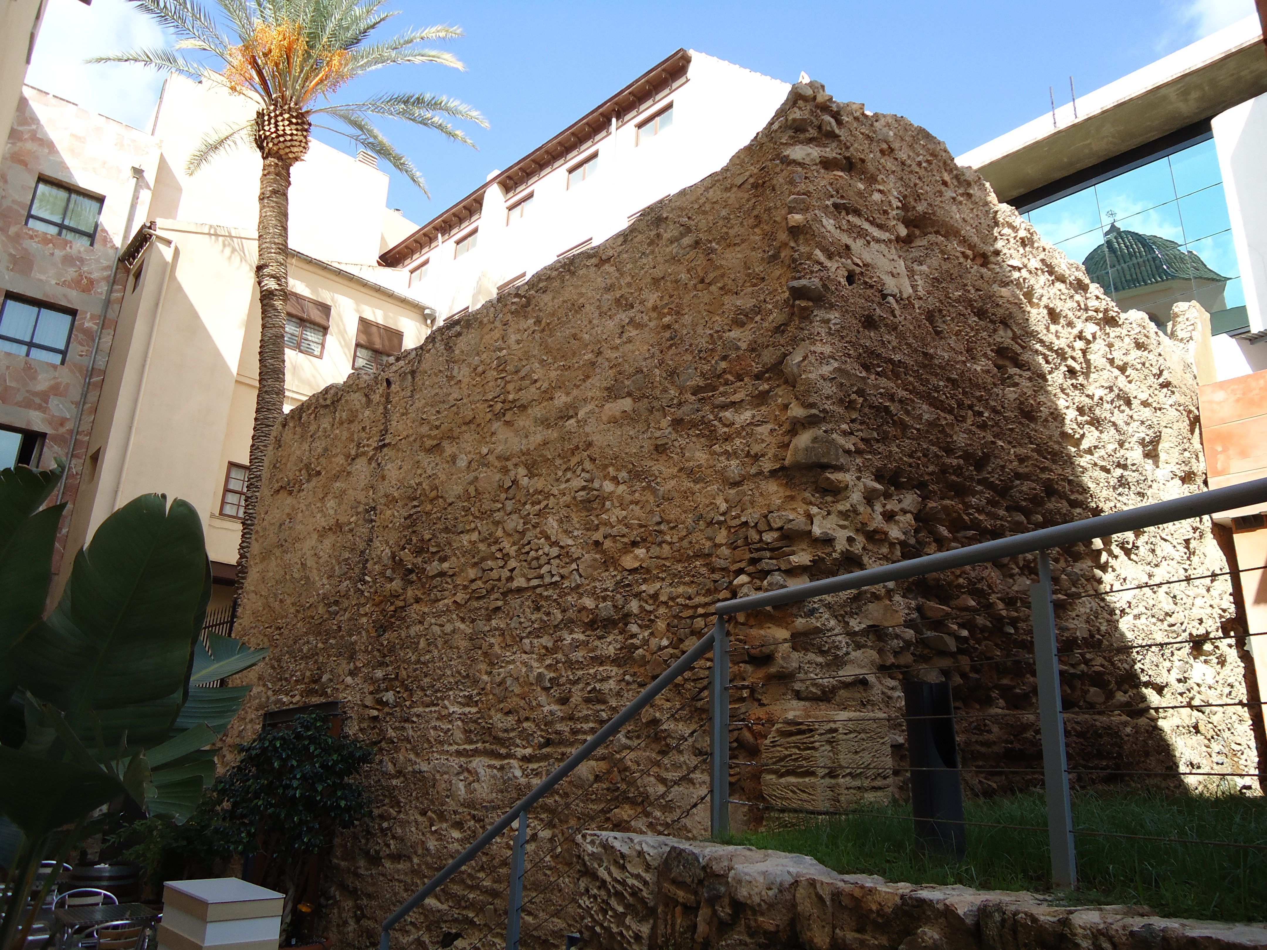 Restes de la torre defensiva del pati de la Casa Casinello, Oriola.